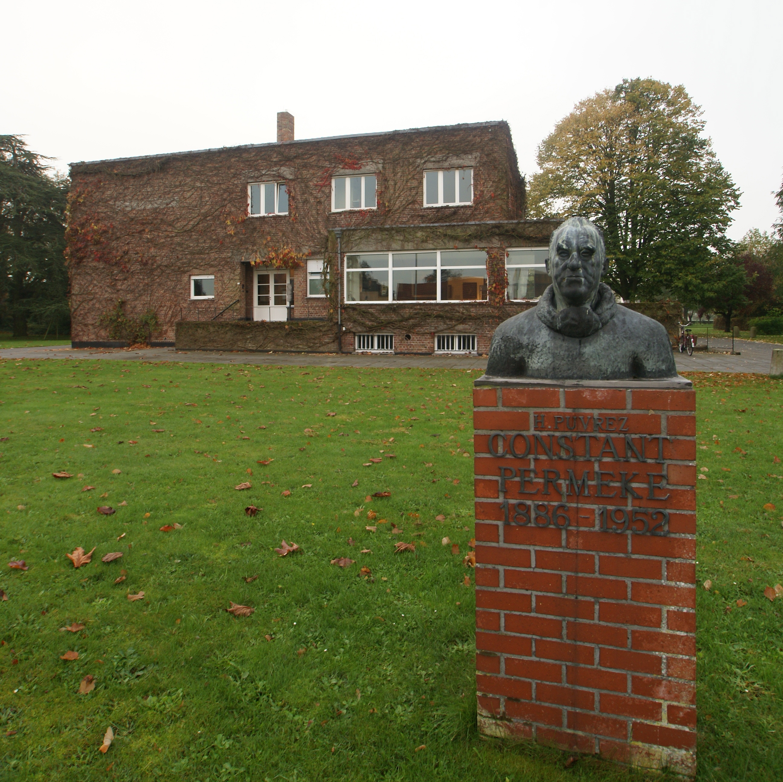 Jabbeke (Belgium): Constant Permeke Museum